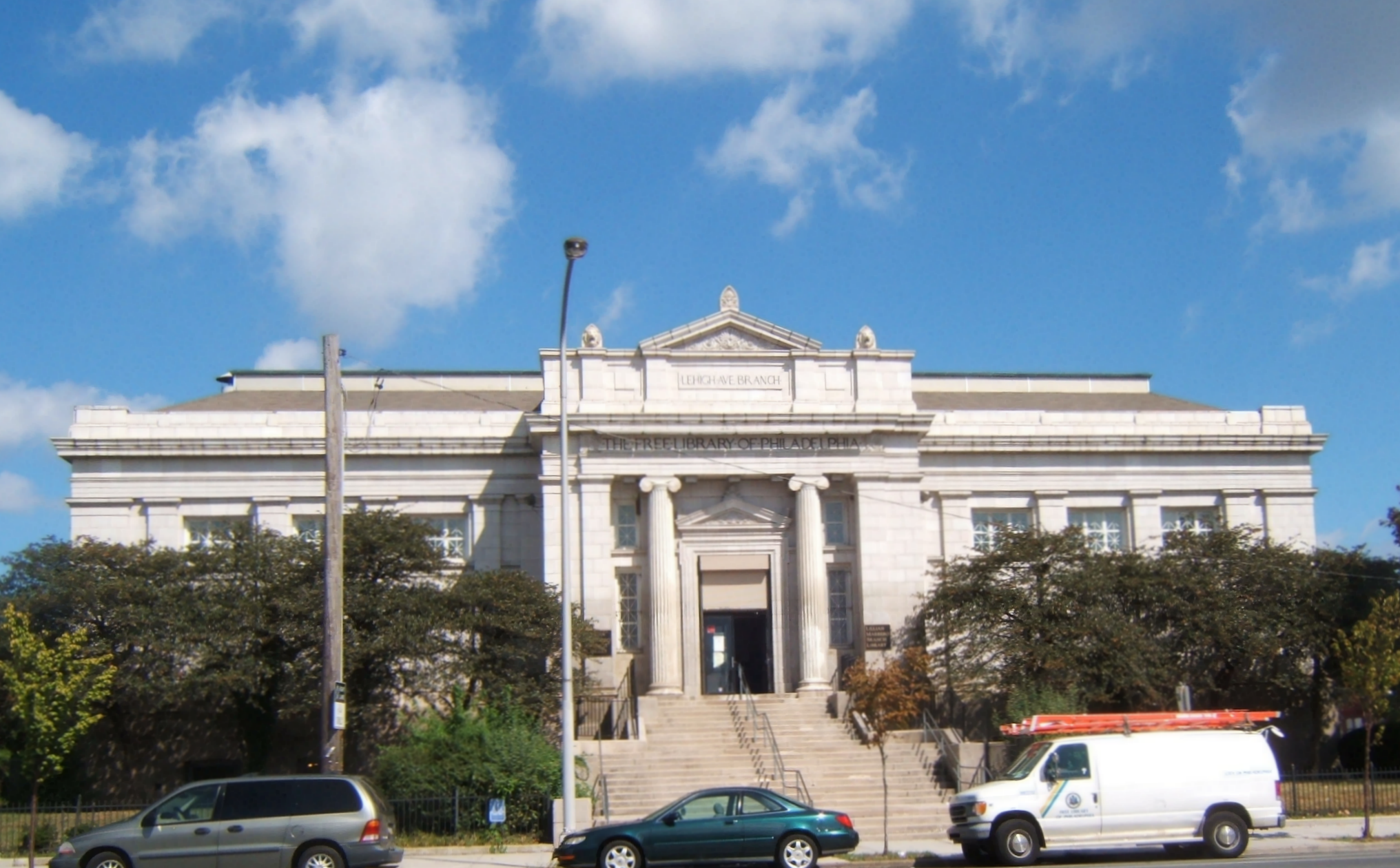 Free Library of Philadelphia, Lillian Marrero Branch Library (formerly Lehigh Avenue Branch), 601 West Lehigh Avenue, Philadelphia, PA 19133